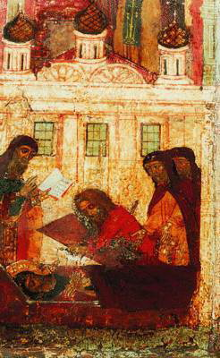 Enoch Alexander Rostovsky (right). Stamp icon "Venerable. Irinarkh, reclusive Sts, in conversation". 2-nd floor. XVII century. (GMZRK)